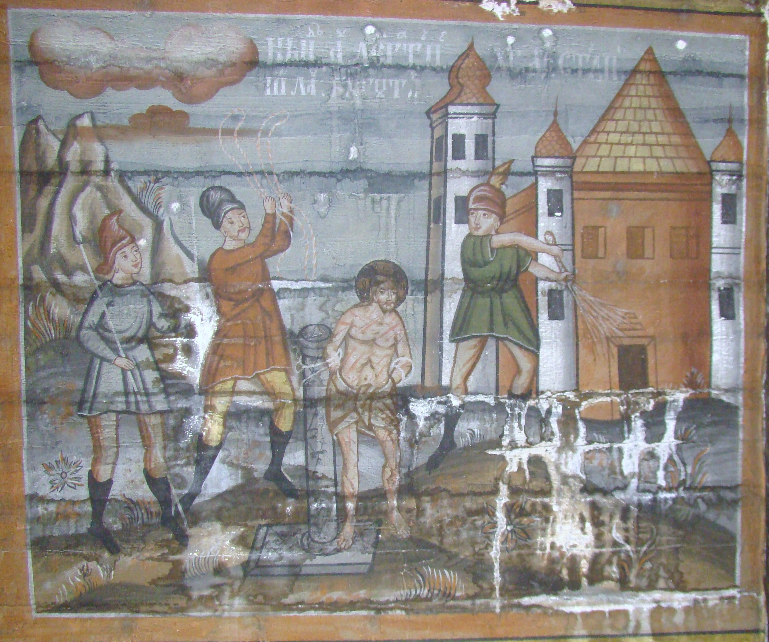 Wooden church in Apoldu de Jos, Sibiu countyRomână: Biserica de lemn din Apoldu de Jos, județul Sibiu